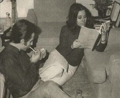 Souad hosni with her husband Ali Badrakhan